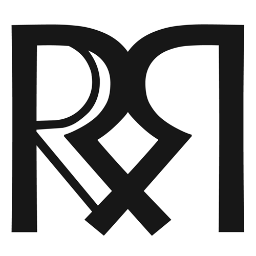 Surrism crest of the Surrealists RR, created by Jaan Patterson. This crest is part of the Surrism coat of arms as well as suRRism-Phonoethics.